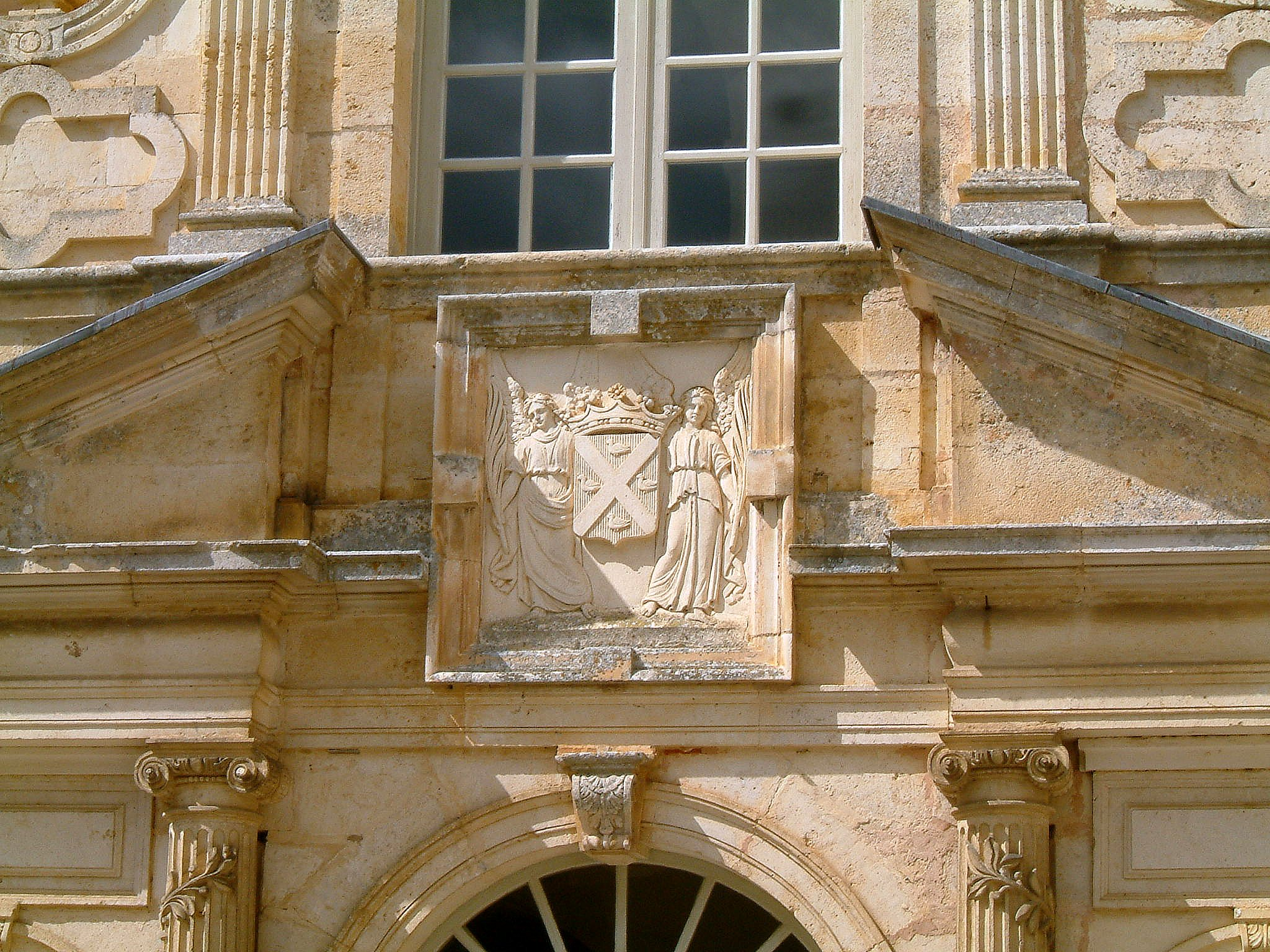 Chateau de Bussy-Rabutin, Bussy le Grand, Bourgogne, France